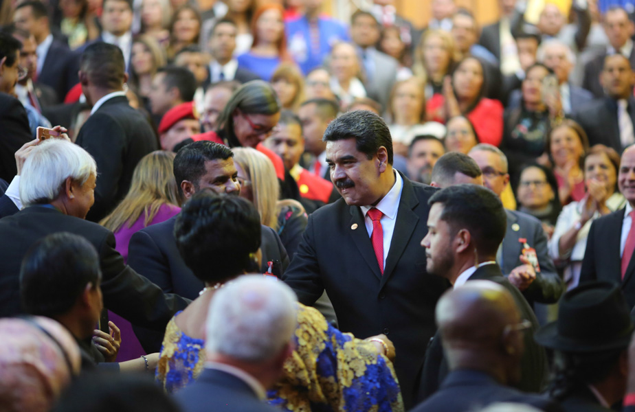 Meeting of Maduro with people at his second inauguration